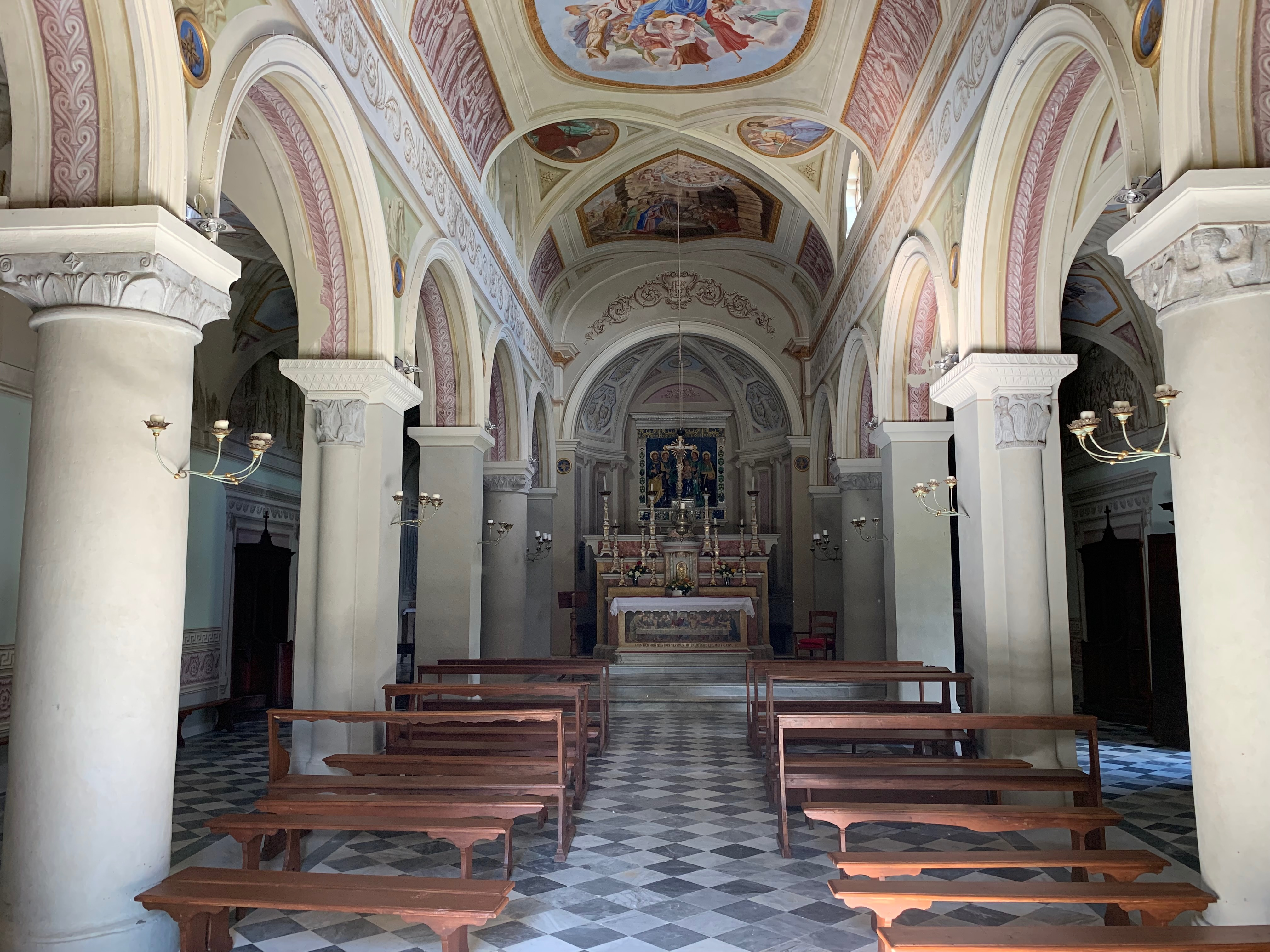 Interior of Pieve di Santa Maria Novella in Chianti (Radda in Chianti)